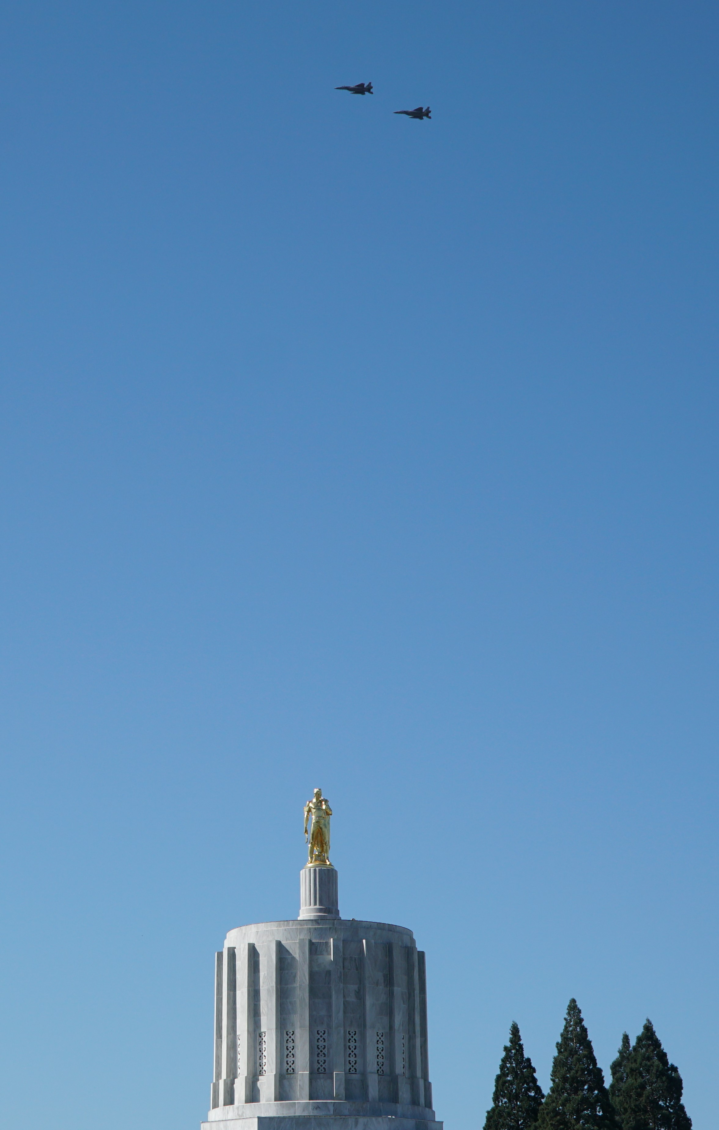 The Oregon National Guard did a fly over the state to honor health care workers. One of our photographers captured these images.